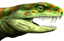 Eothyris parkeyi, pencil drawing, digital coloring